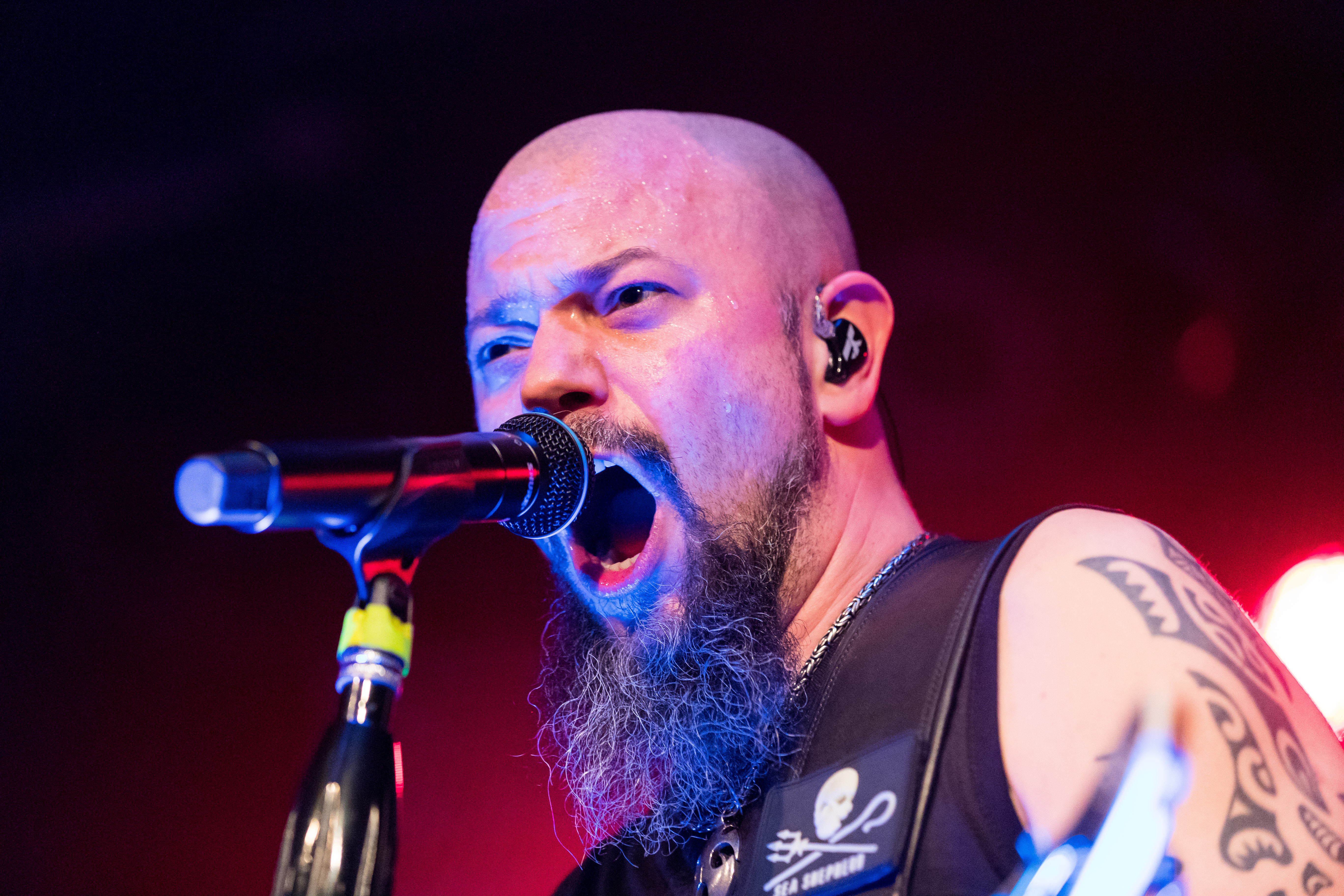 Klogr during Butcher Babies (Support: Klogr & Eyes Set To Kill) at MS Connexion Complex, Mannheim, Baden-Württemberg, Germany on 2018-03-15, Photo: Sven Mandel